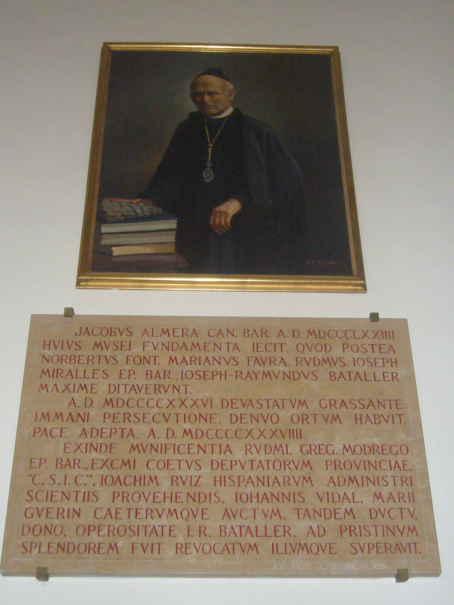 Geological Museum at the Seminari of Barcelona